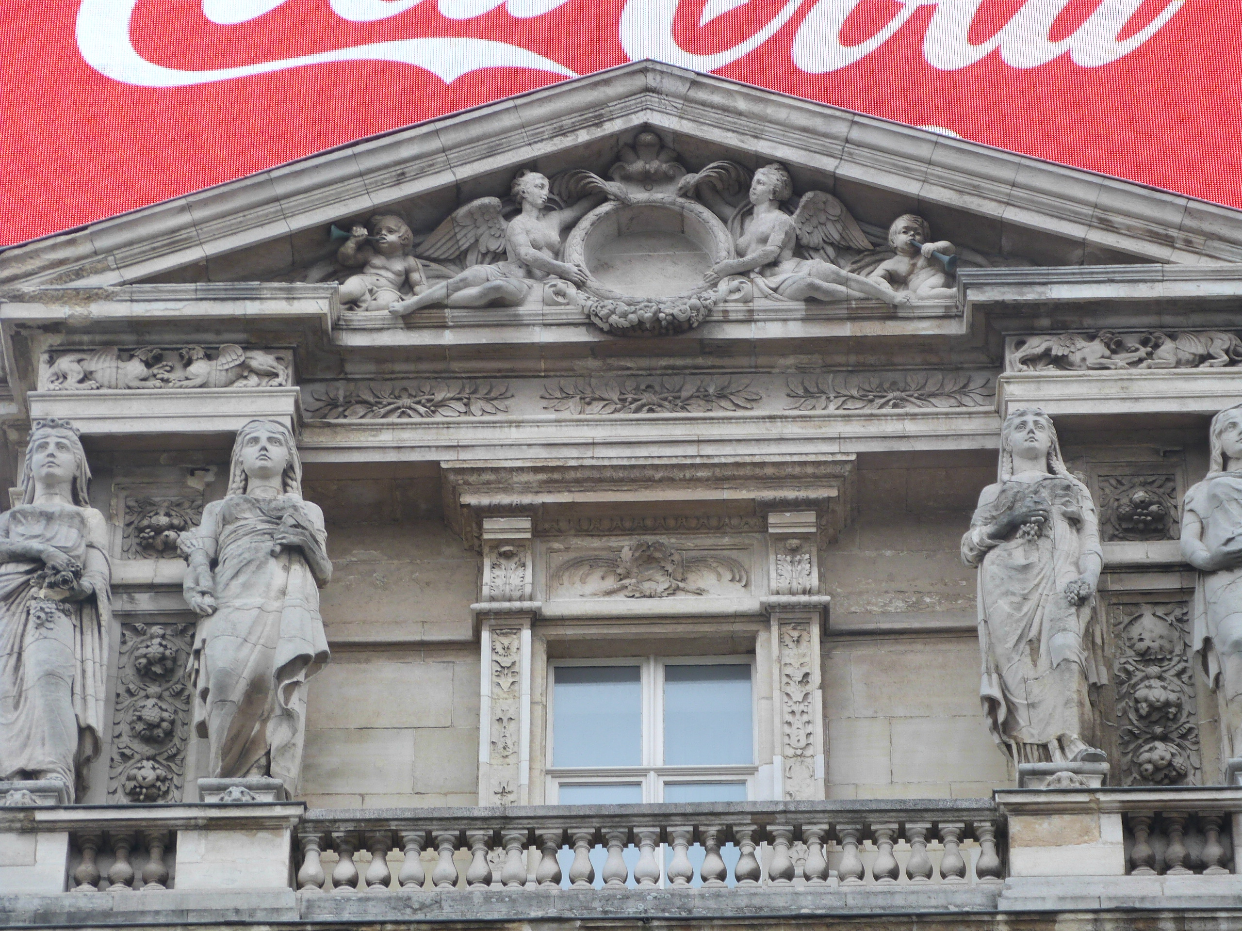 hotel Continental, Brouckère